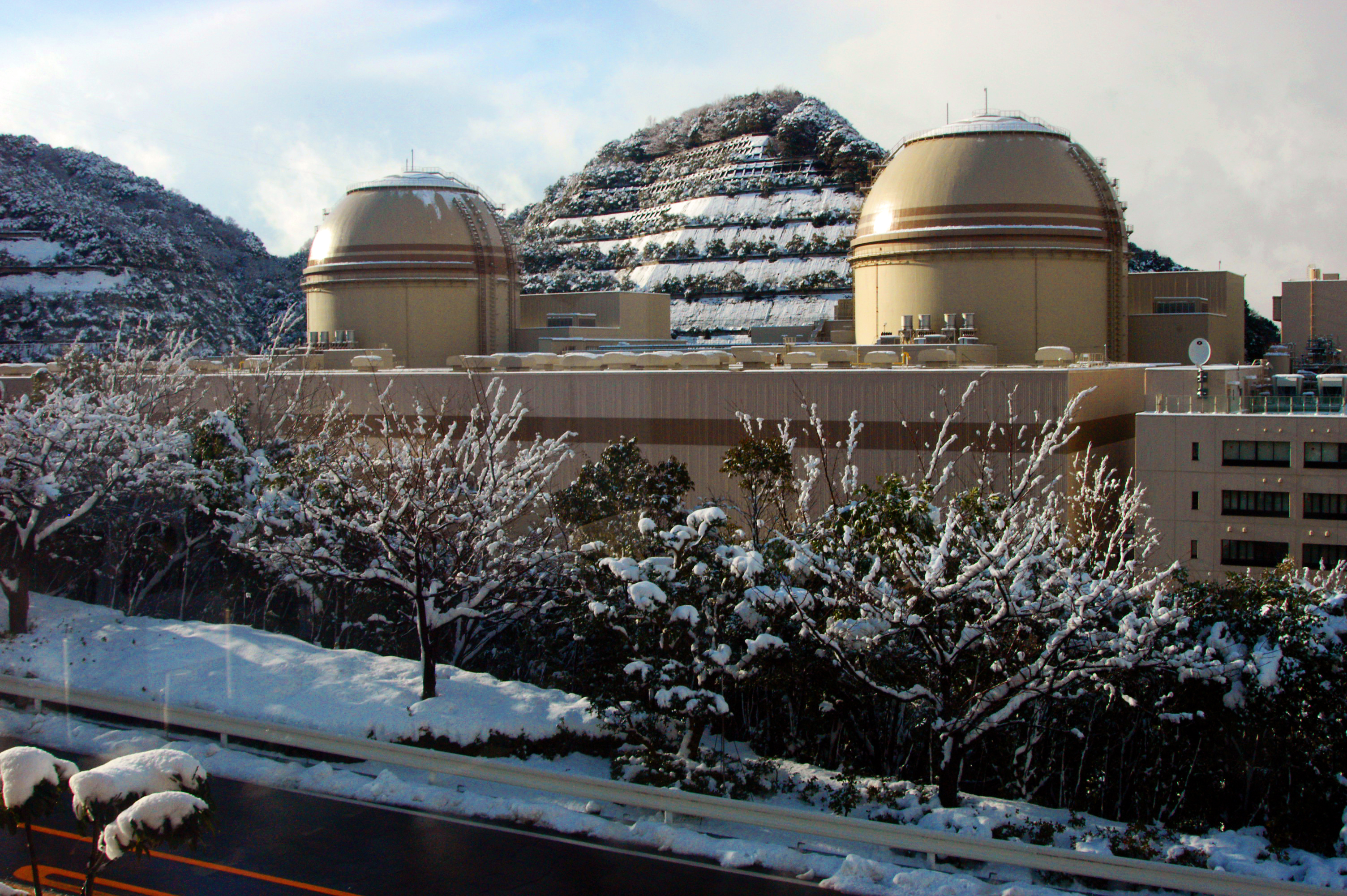 Units 3 (right) and 4 (left) at Japan’s Ohi Nuclear Power Plant. 26 January 2012